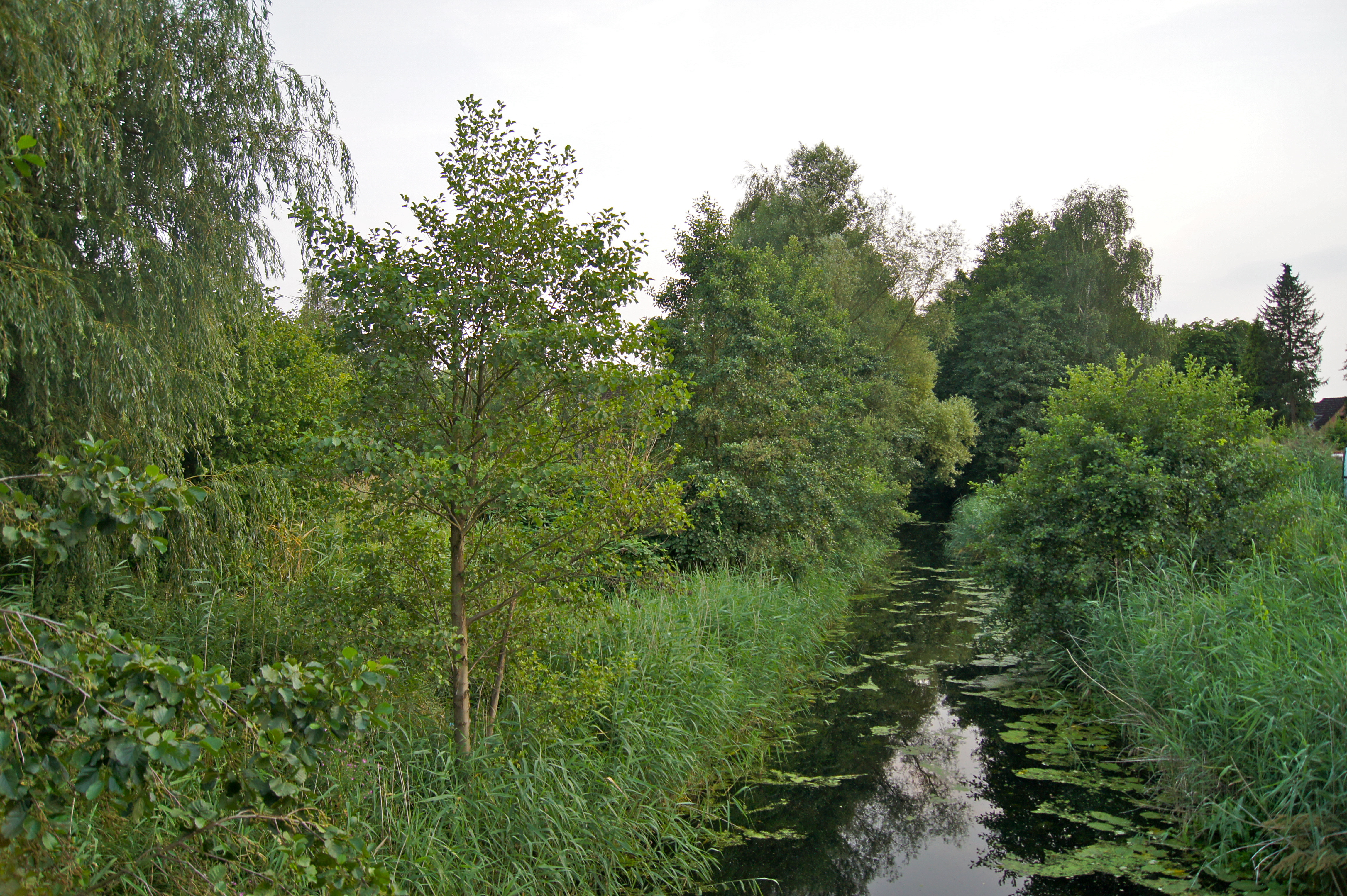 Hamburg (Neuengamme), Germany: The canal Neuengammer Durchstich at the Neuengammer Hausdeich in southern direction